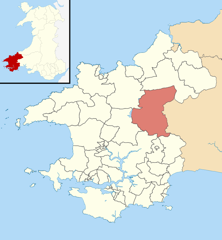 Location map of Maenclochog electoral ward in Pembrokeshire, Wales, which covers the communities of Maenclychog, New Moat, Mynachlog-ddu, Llandissilio West and Clynderwen